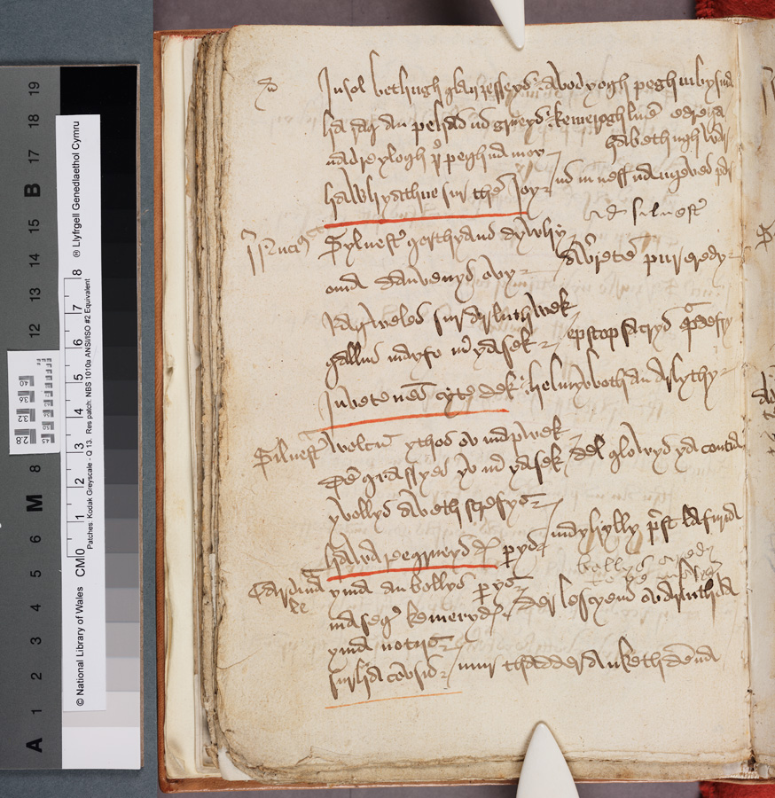 A page from Beunans Meriasek, one of only two known saint's play in Middle Cornish.